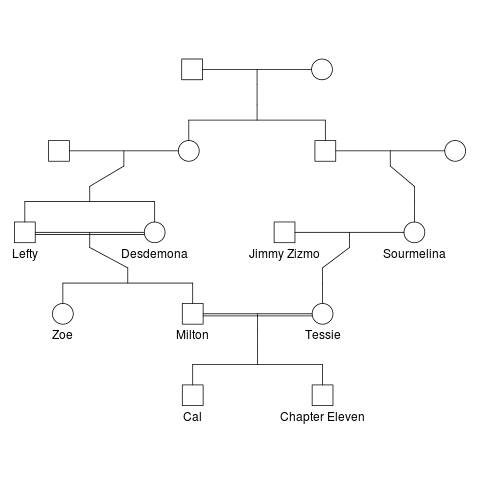 Family relations between the main characters in the novel Middelsex by Jeffrey Eugenides. Gender of family members shown without name is not known form the book. Created with R version 3.0.2. using the kinship2 package 1.5.4.